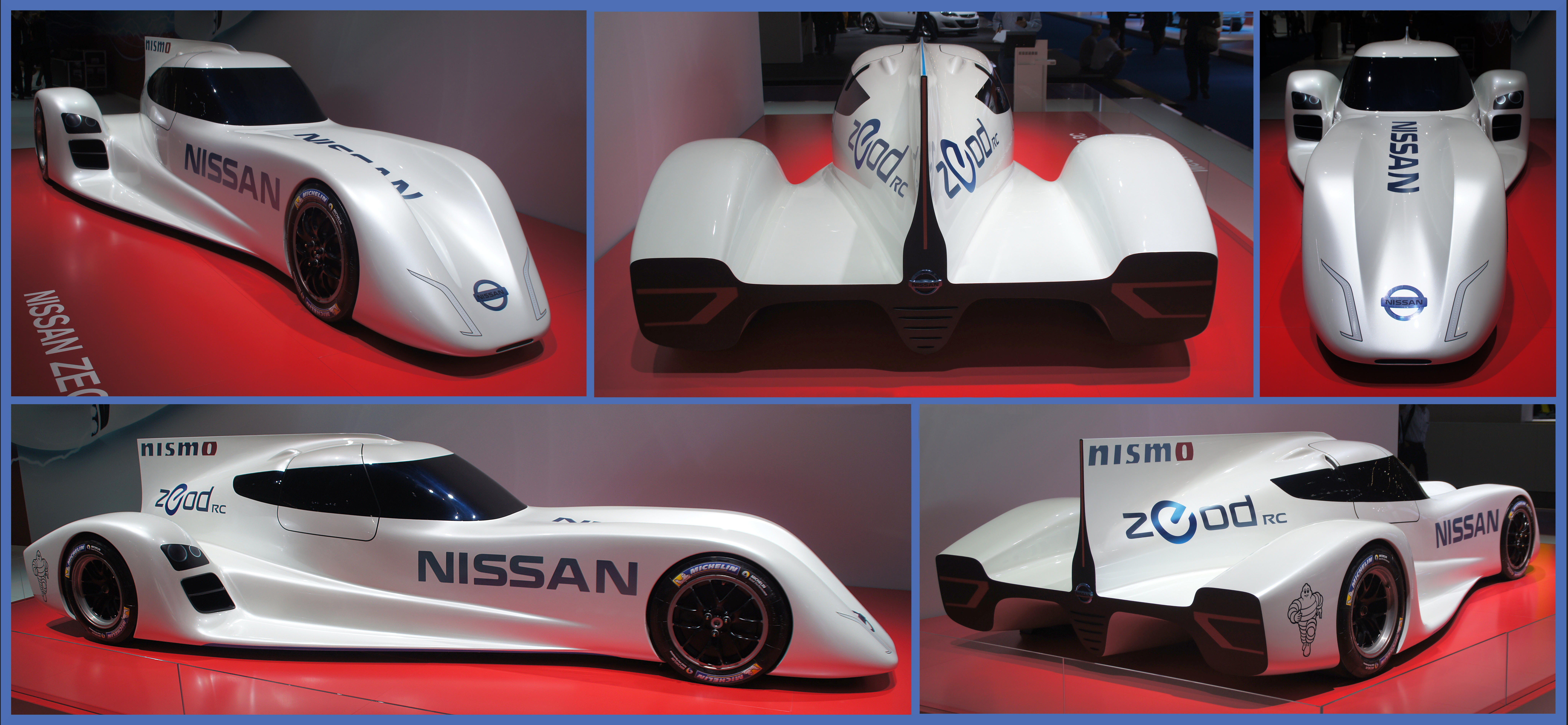 Nissan Nismo "Zero Emission On Demand Racing Car", shown at Frankfurt Motor Show, 2013. Some weeks ago test driver Lucas Ordóñez reached 300km/h in Le Mans with the built-in elecktric drive. The shape of the car is similar to the Le Mans 2012 car Nissan DeltaWing 1.6L Turbo I4 by Ben Bowlby (design) and Dan Gurney (construction). After 2014 the electric drive shall be integrated in a hybrid solution.